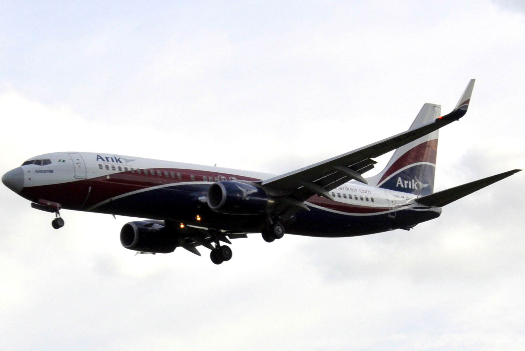 Boeing 737-86N - Arik Air (ref:5N-MJO)